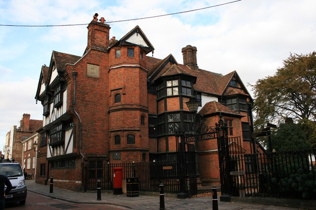 Eastgate House, Rochester, Kent Eastgate House from Eastgate Ct / High Street, Rochester, Kent